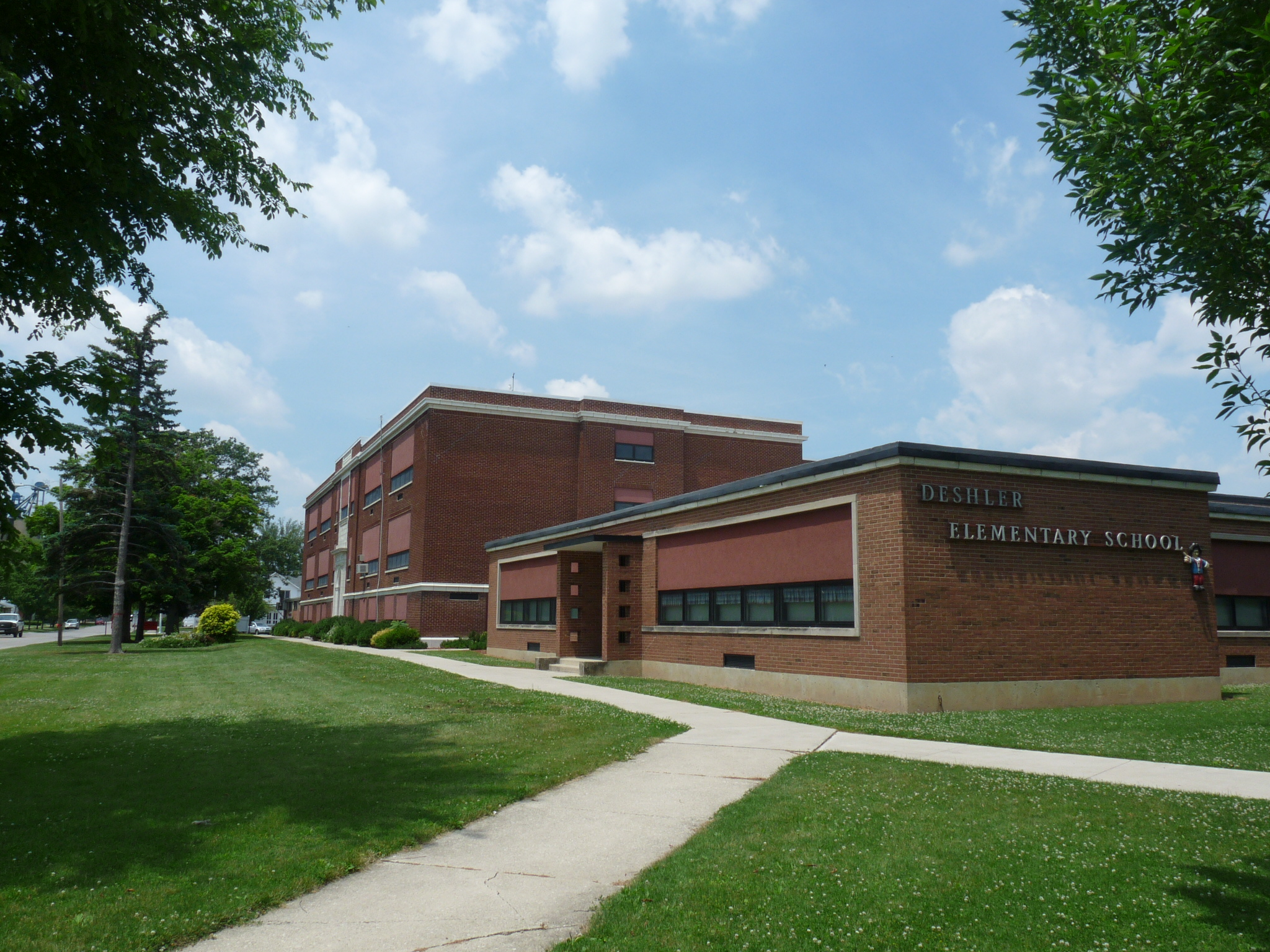 Deshler Elementary School (Previously Deshler High and Grade School). Example of the 20th century Modern architecture movement in the United States.